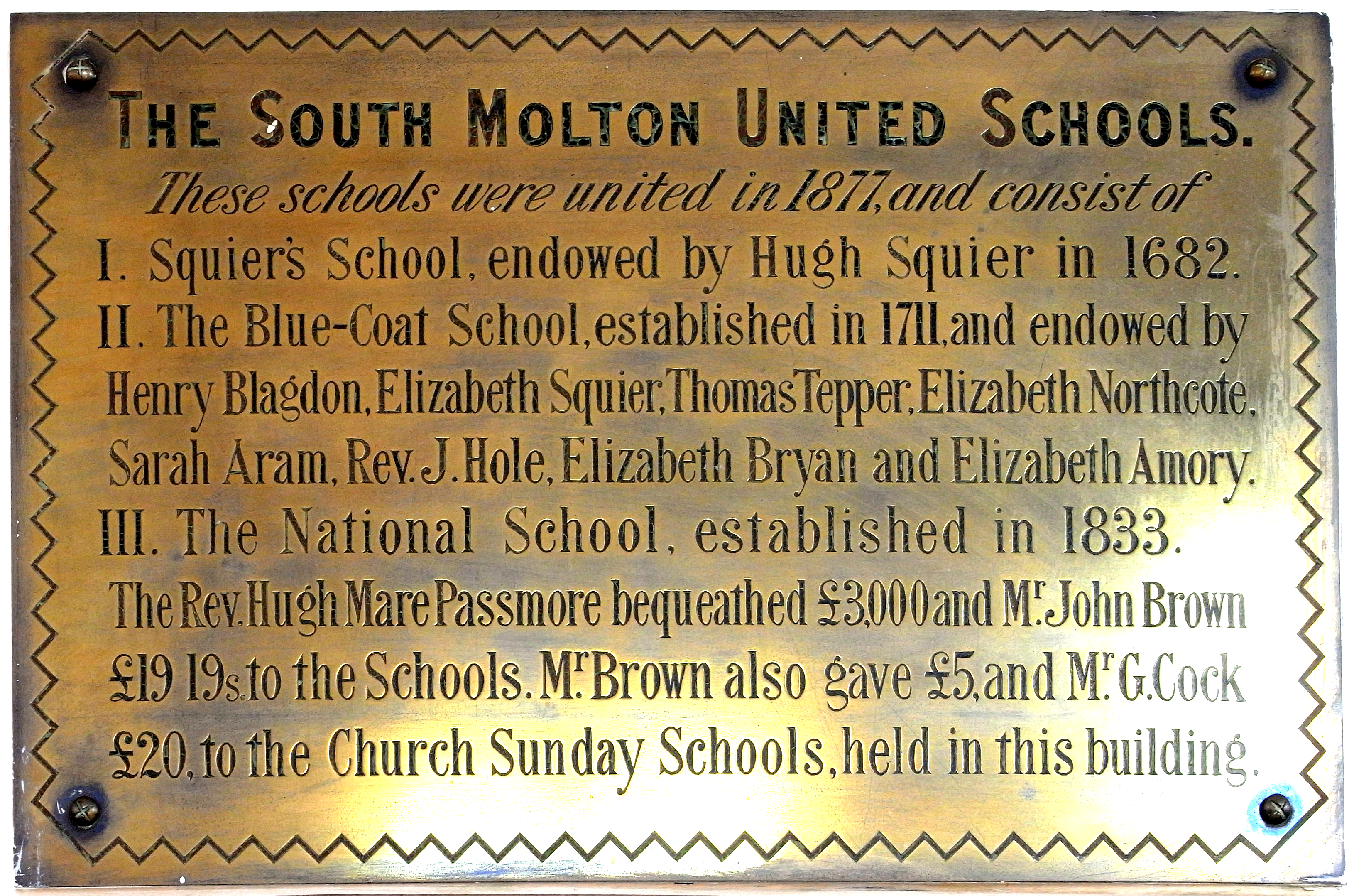 19th century memorial brass tablet in hall of South Molton Primary School, North Street, South Molton, Devon, inscribed as follows: "The South Molton United Schools. These schools were united in 1877 and consist of: I: Squier's School, endowed by Hugh Squier in 1682; II: the Blue-Coat School, established in 1711 and endowed by Henry Blagdon, Elizabeth Squier, Thomas Tapper, Elizabeth Northcote, Sarah Aram, Rev. J. Hole, Elizabeth Bryan and Elizabeth Amory. III: The National School, established in 1833. The Rev. Hugh Mare Passmore bequeathed £3,000 and Mr John Brown £19 19s to the schools. Mr Brown also gave £5 and Mr G, Cock £20 to the Church Sunday Schools held in this building". Elizabeth Squier (d.1734) of Townhouse Barton, South Molton, was the great-niece of Hugh Squier (d.1710) who founded the "Free School" (alias Squier's School) in 1682.